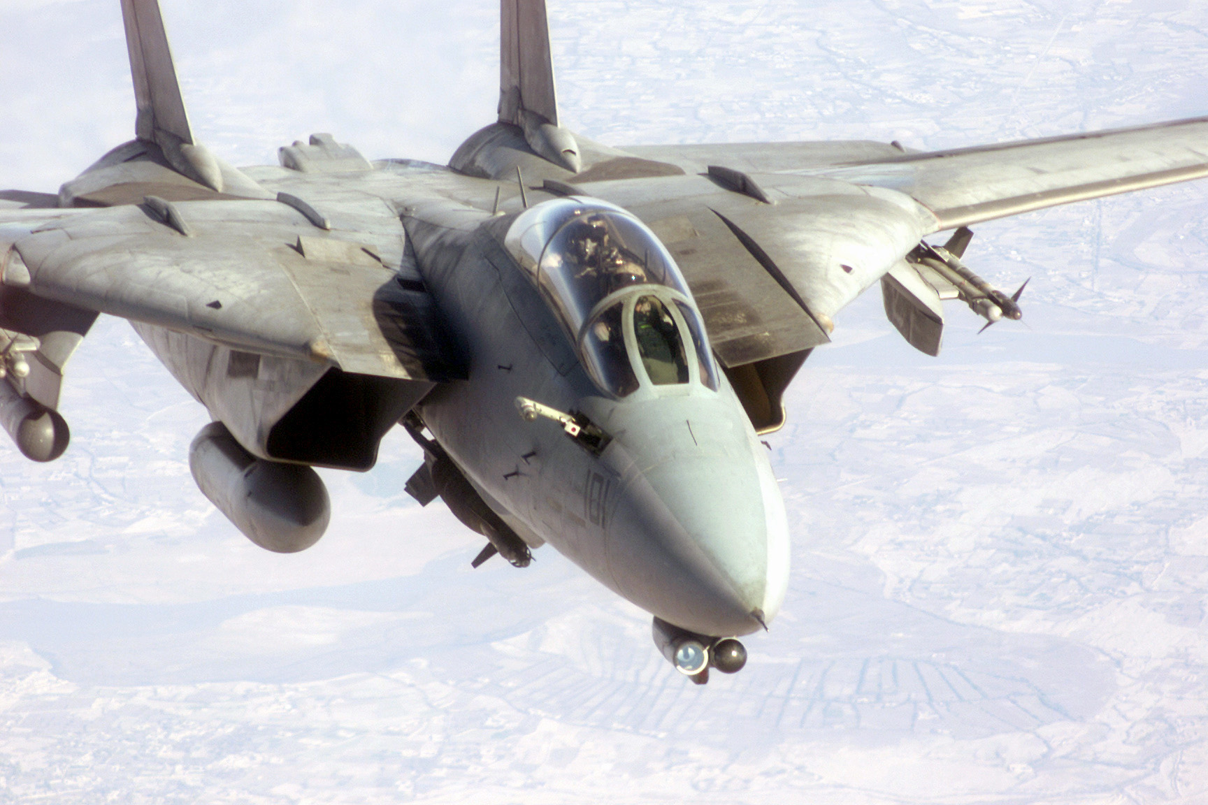 A U.S. Navy F-14D Tomcat flies up with its refueling probe out preparing to connect with a tanker. The F-14 is armed with two AIM 9 Sidewinder missiles, a Paveway II Laser Guided GBU-10 2,000-pound bomb, and LANTIRN Pod, as it prepares for a bombing mission over Afghanistan in support of Operation ENDURING FREEDOM.